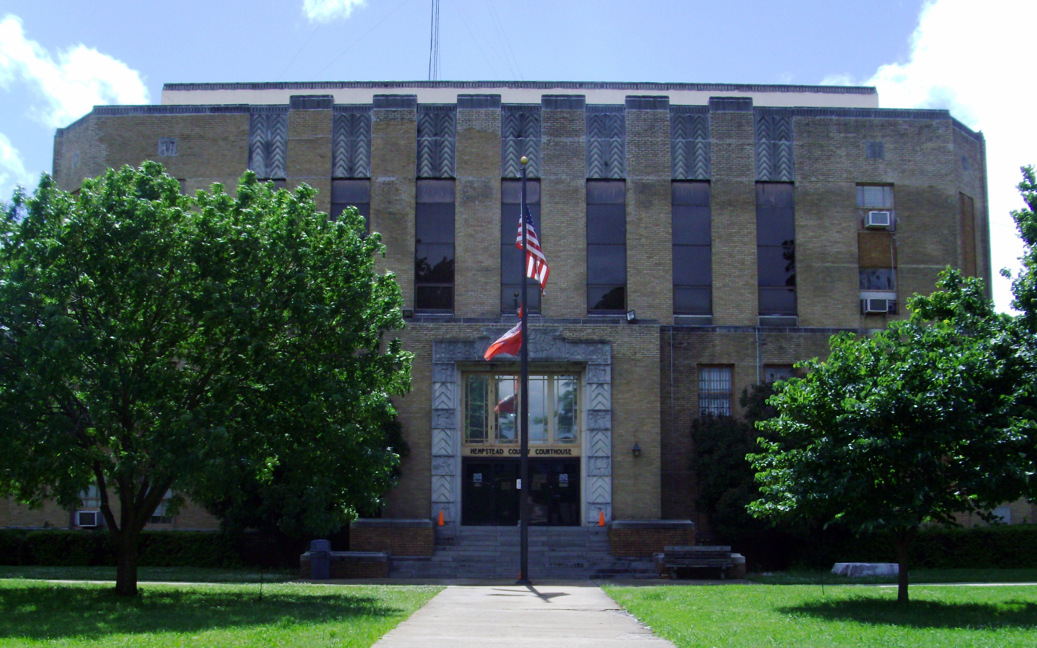 Hempstead County Courthouse facade